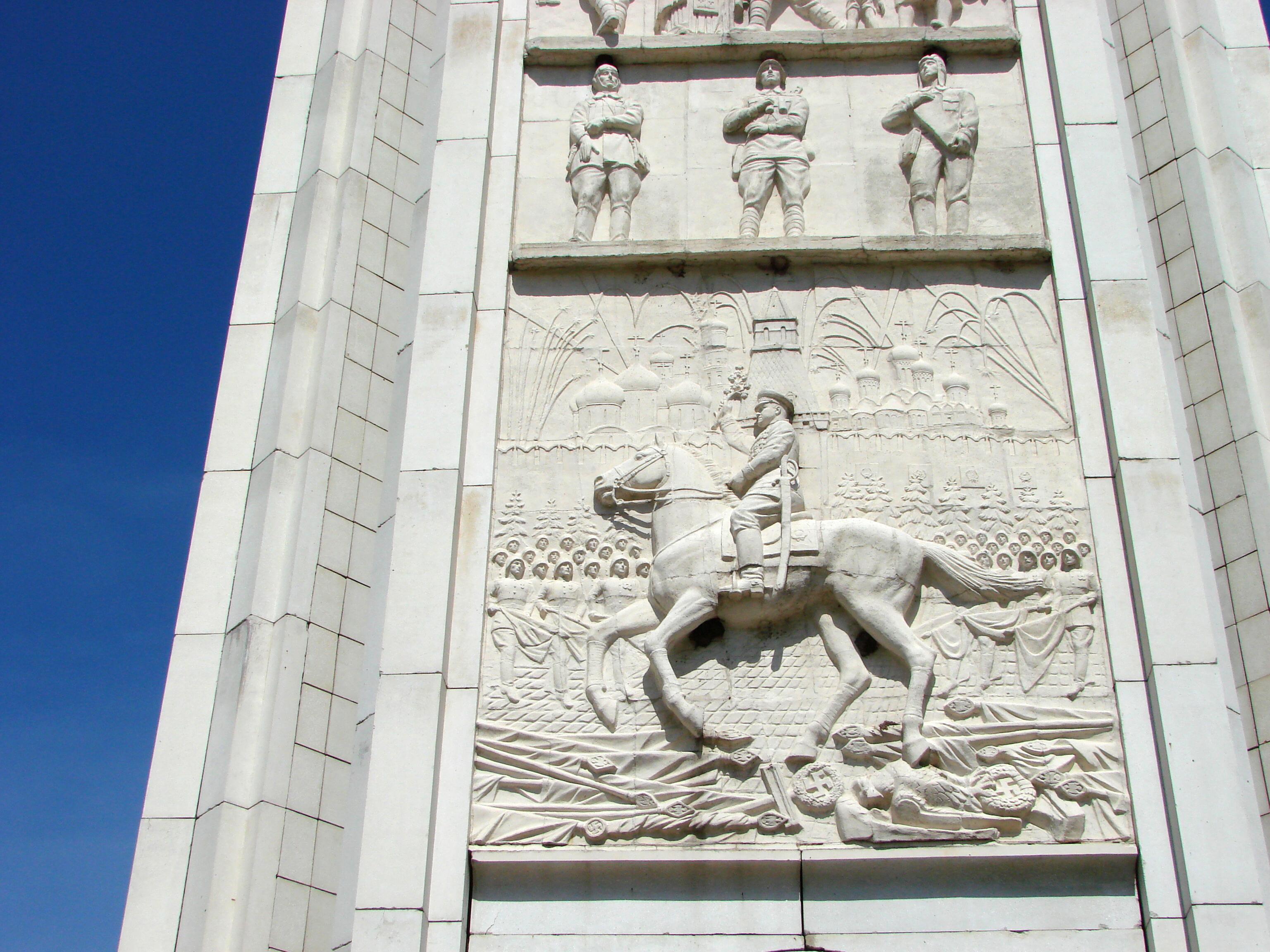 Marshal Georgy Zhukov is depicted trampling Nazi standards, on the memorial to the Battle of Kursk (July 1943), outside Prokhorovka, Russia. The scene occurred at the victory parade in Moscow in 1945.